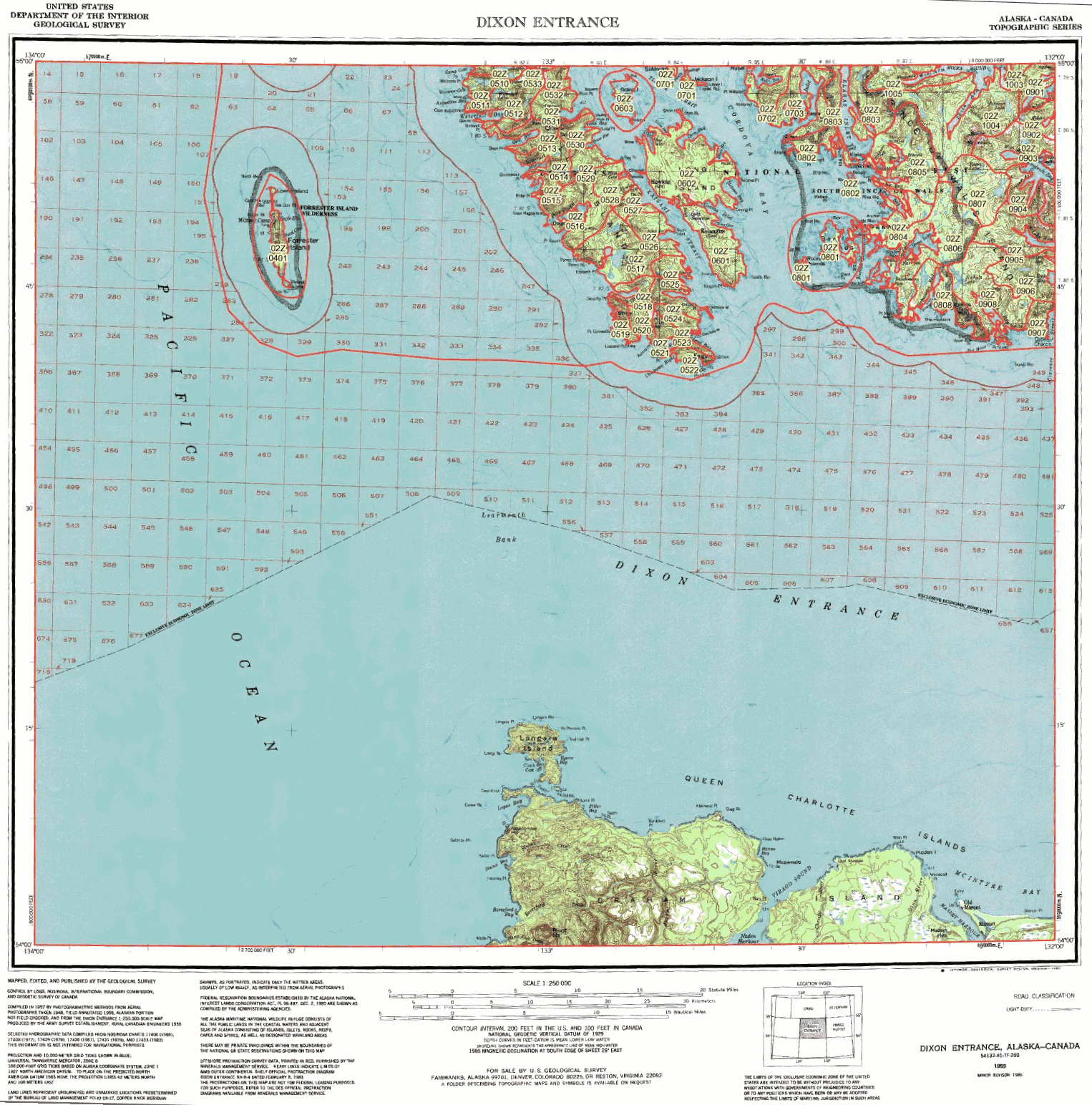 Dixon Entrance, Northwestern America. A contour map of Dixon Entrance, provided by the U.S. Dept. of the Interior Geological Survey.